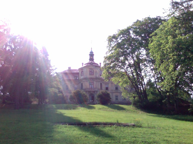 View at Chateau Trpist from the East across the Second Lawn